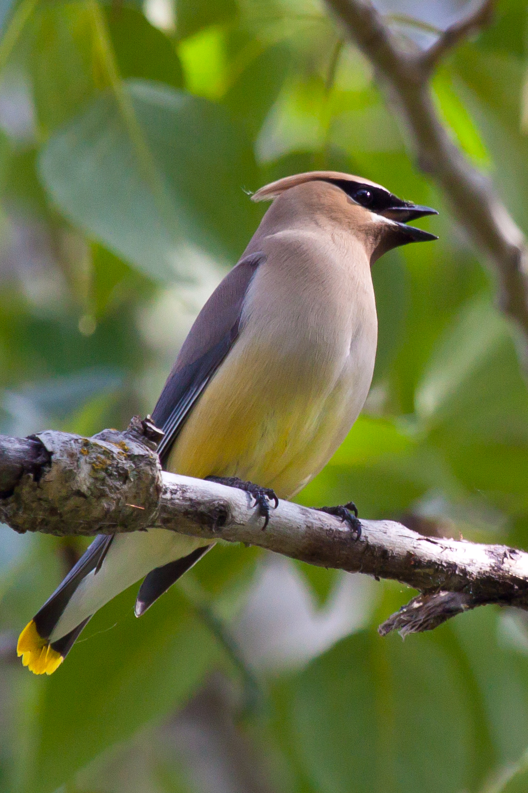 A Cedar Waxwing perching on a branch.